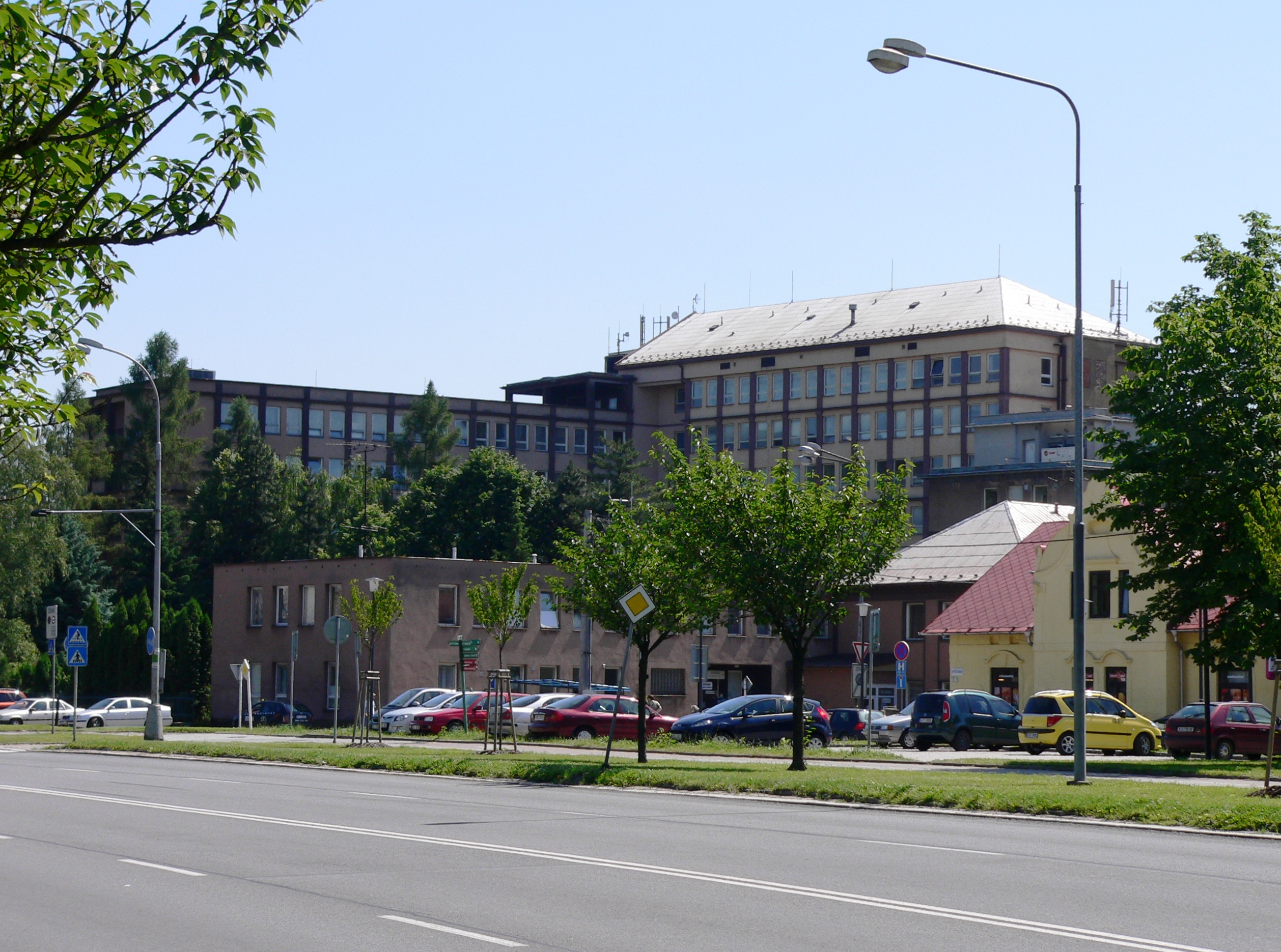 Hospital in Karviná-Ráj. Česky: Nemocnice v Karviné-Ráji.